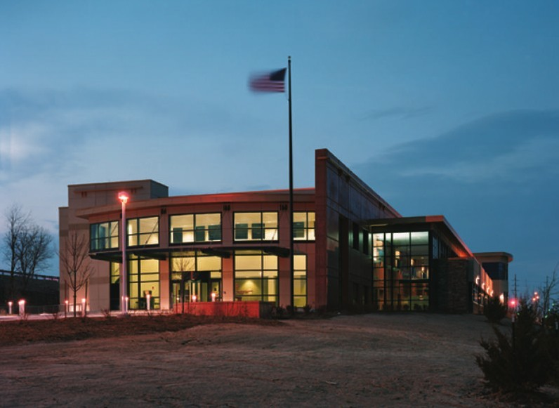 The Science and Technology Center in Kansas City, Kansas includes both office and laboratory space for the U.S. Environmental Protection Agency's Region 7 facility, which includes Iowa, Kansas, Missouri, Nebraska, and nine tribal nations. Opened May 9, 2003.